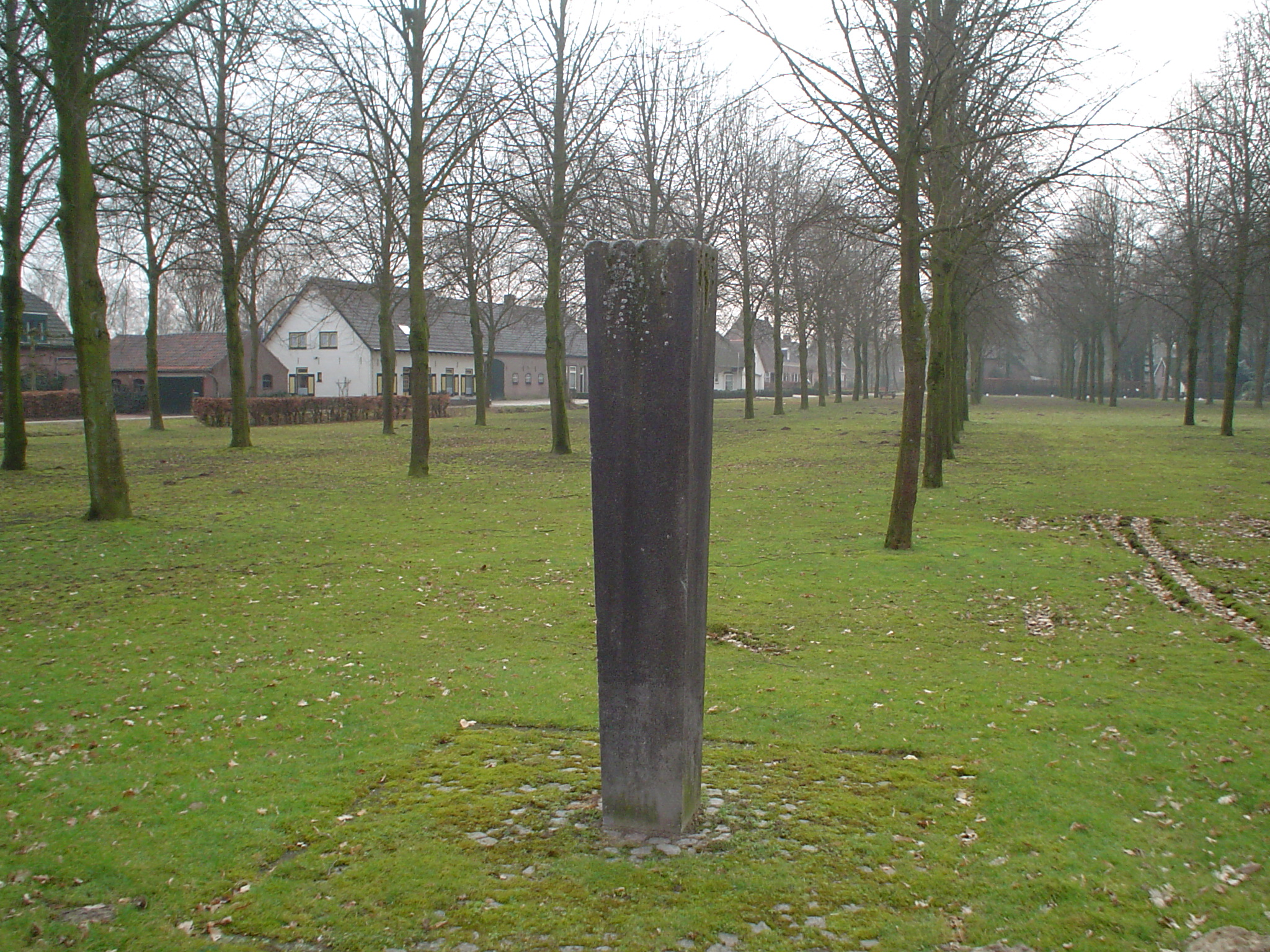 Monument related to the land consolidation process in the hamlet Heers, near Veldhoven, the Netherlands